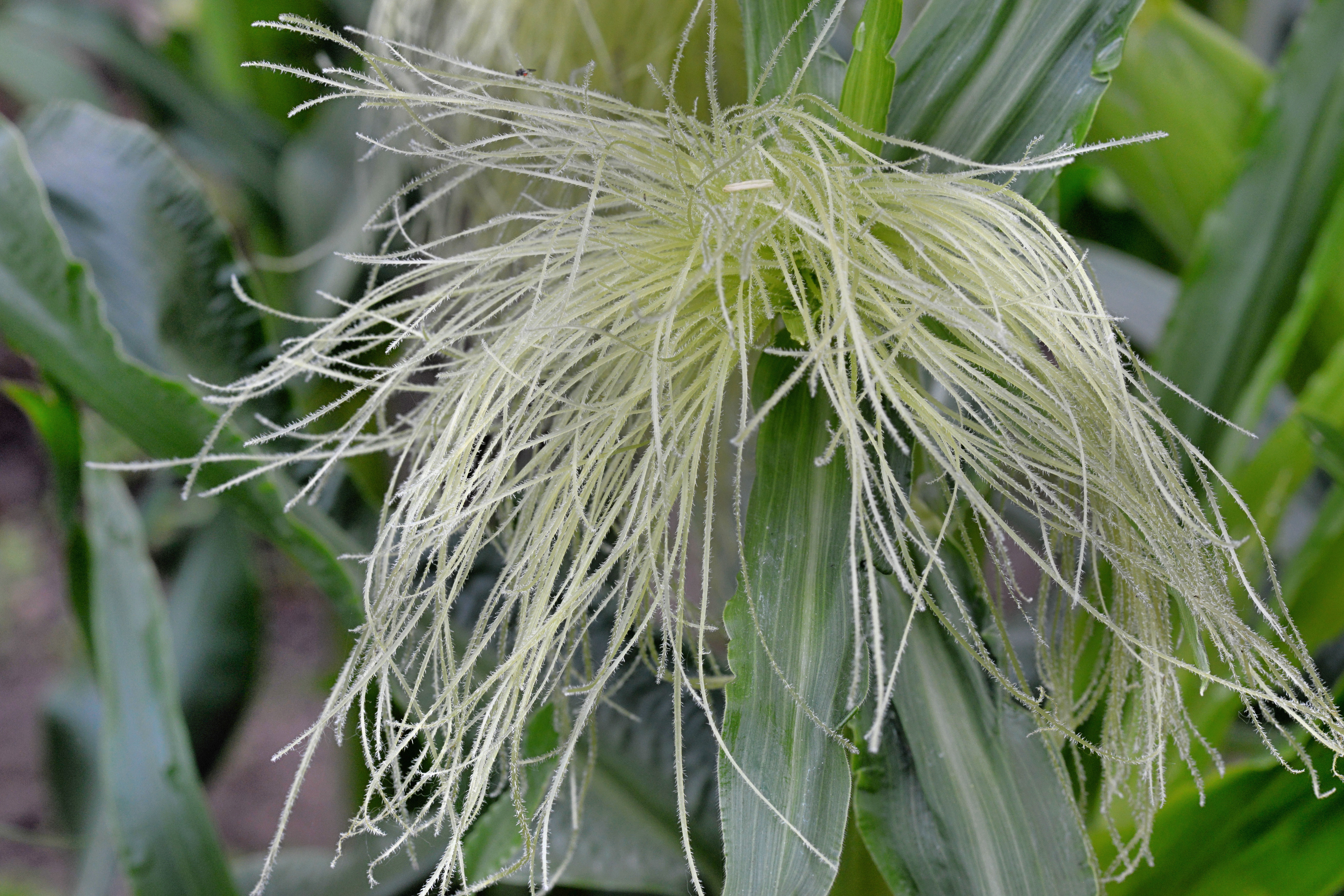 Zea mays silk of sweet corn